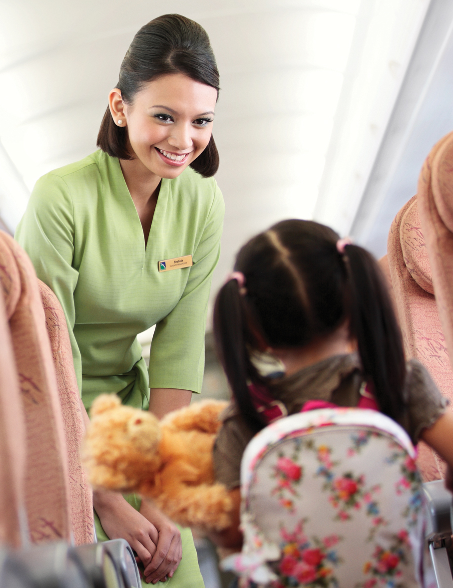 SilkAir flight attendant